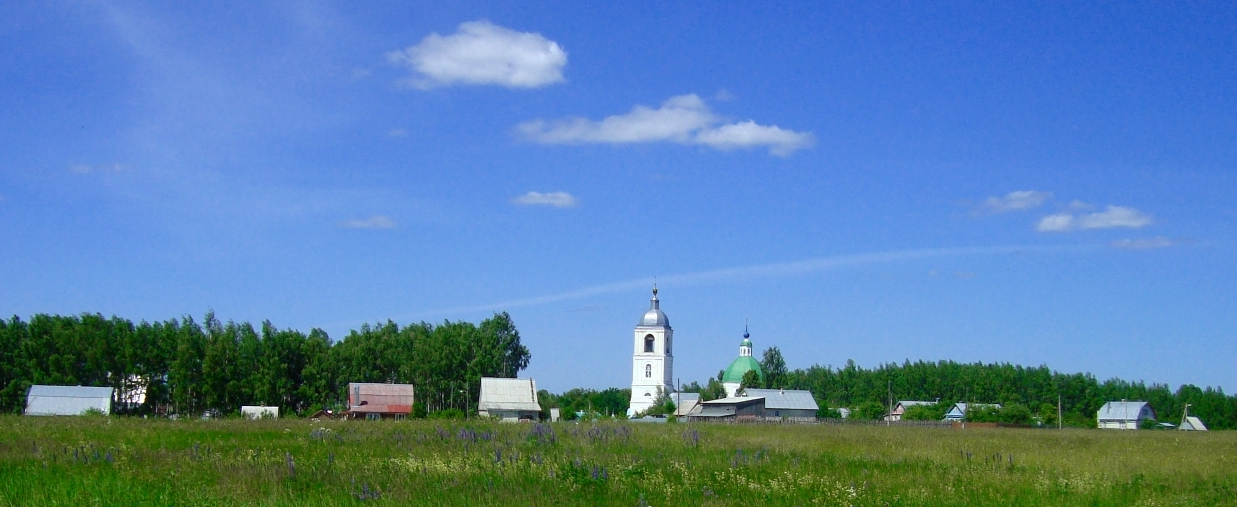 Leonovo, Vladimir oblast, Russia